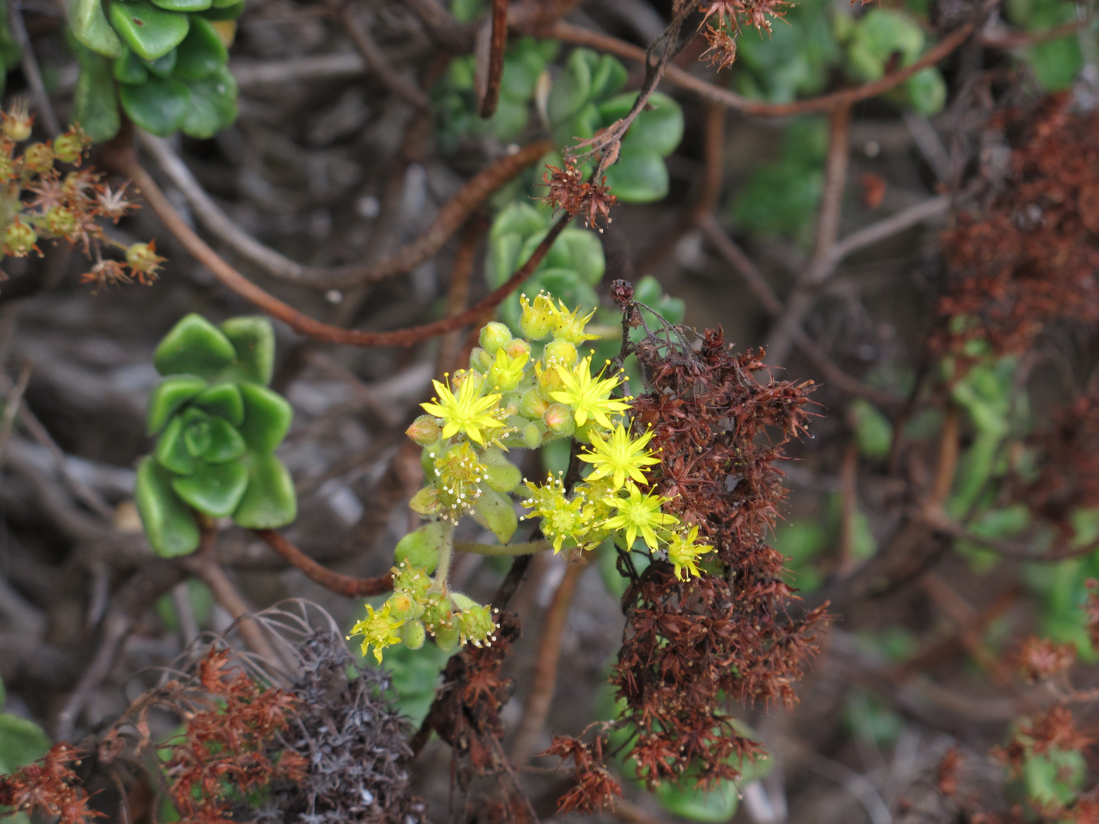 Anaga Rural Park, Tenerife, Canary Islands, Spain.